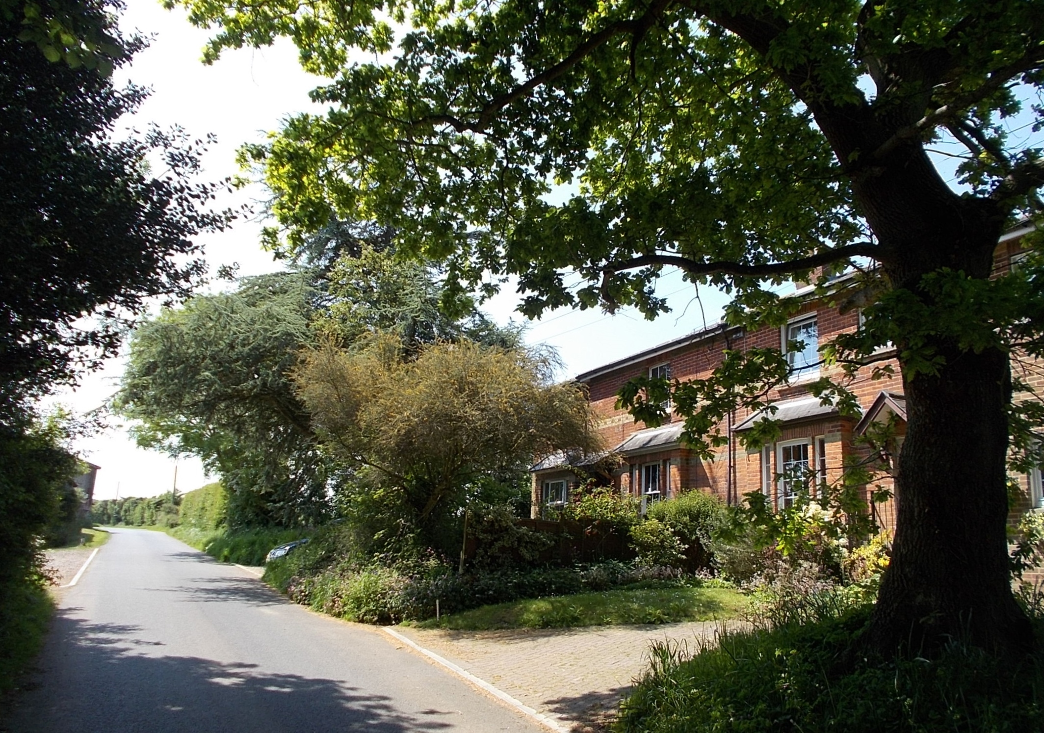 Bathingbourne, Isle of Wight, UK